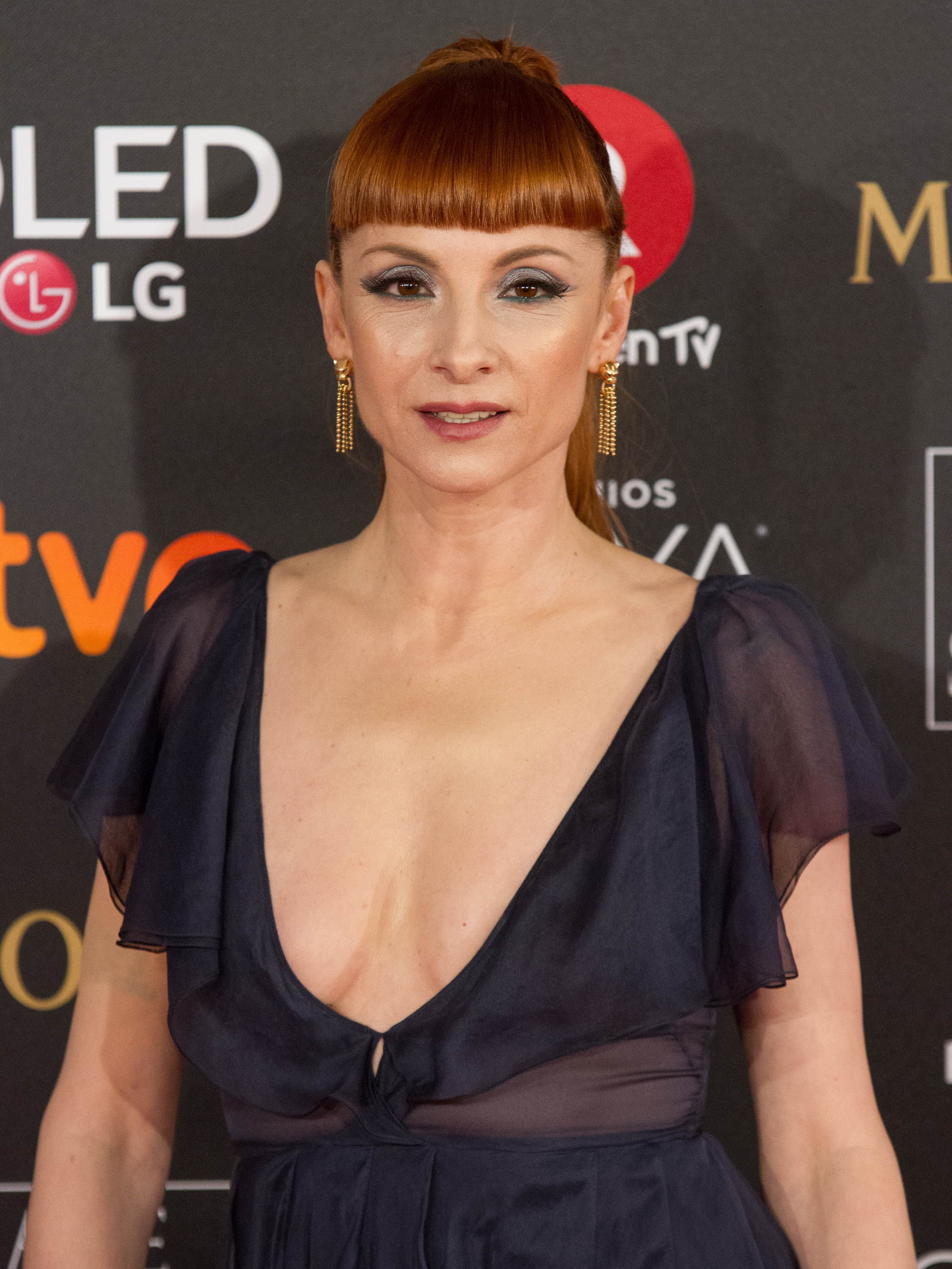 32nd Goya Awards, 2018.